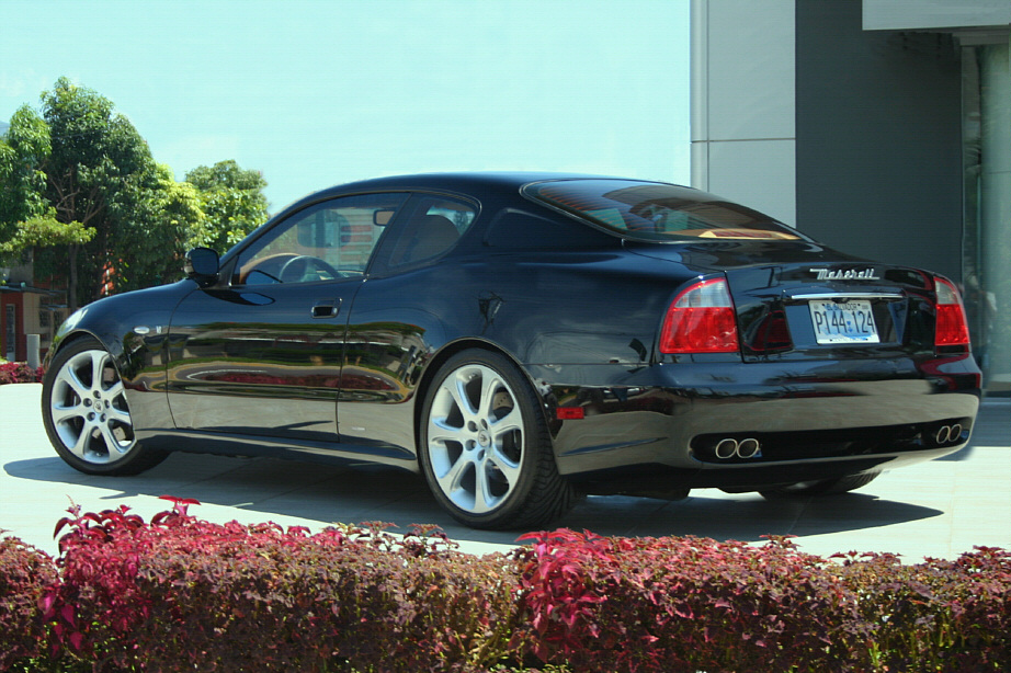 Maserati Coupe - black